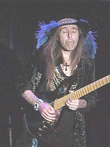 Uli Jon Roth,ex-Scorpions lead guitarist